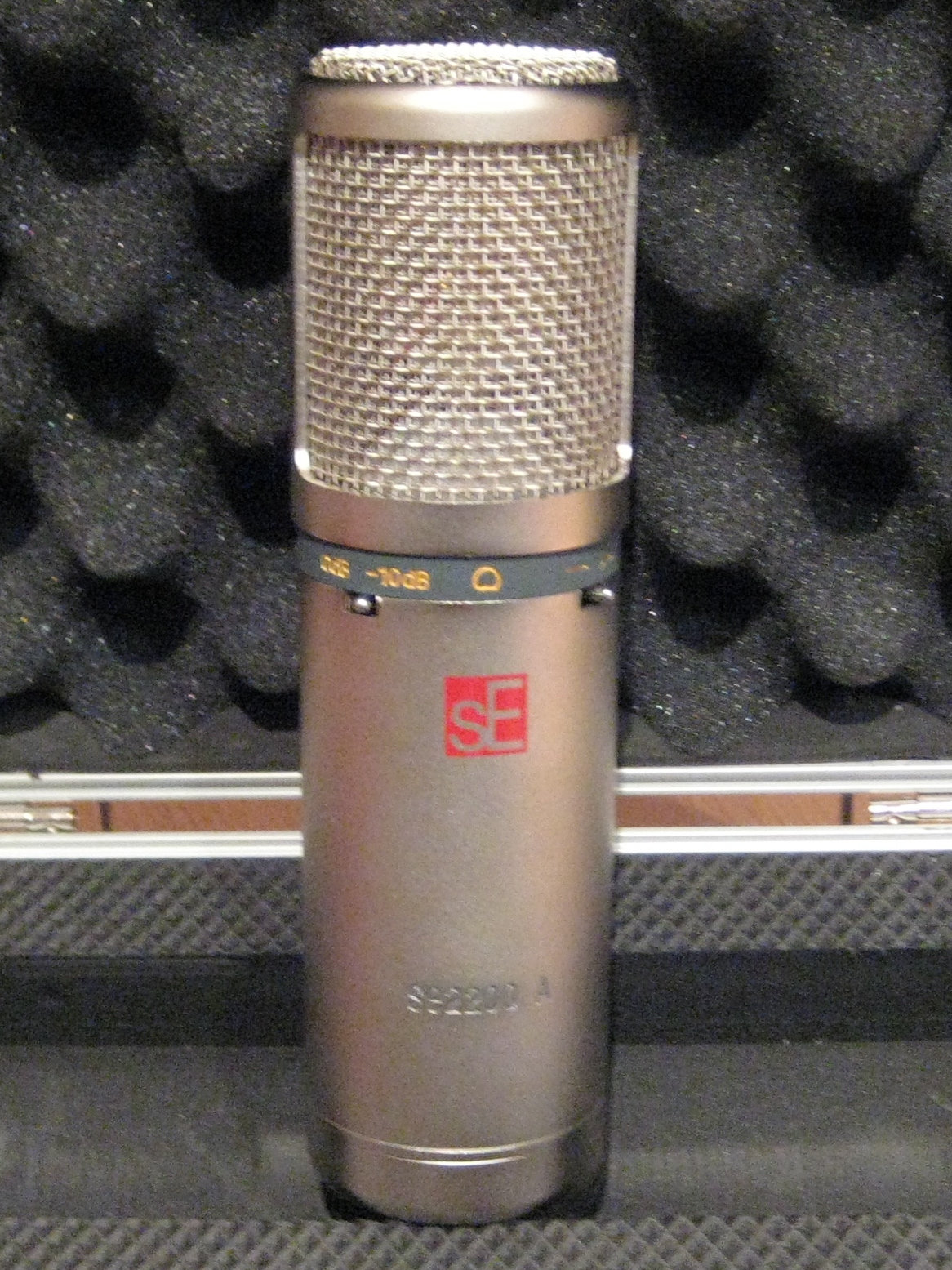 SE Electronics Condenser Microphone 2200a.